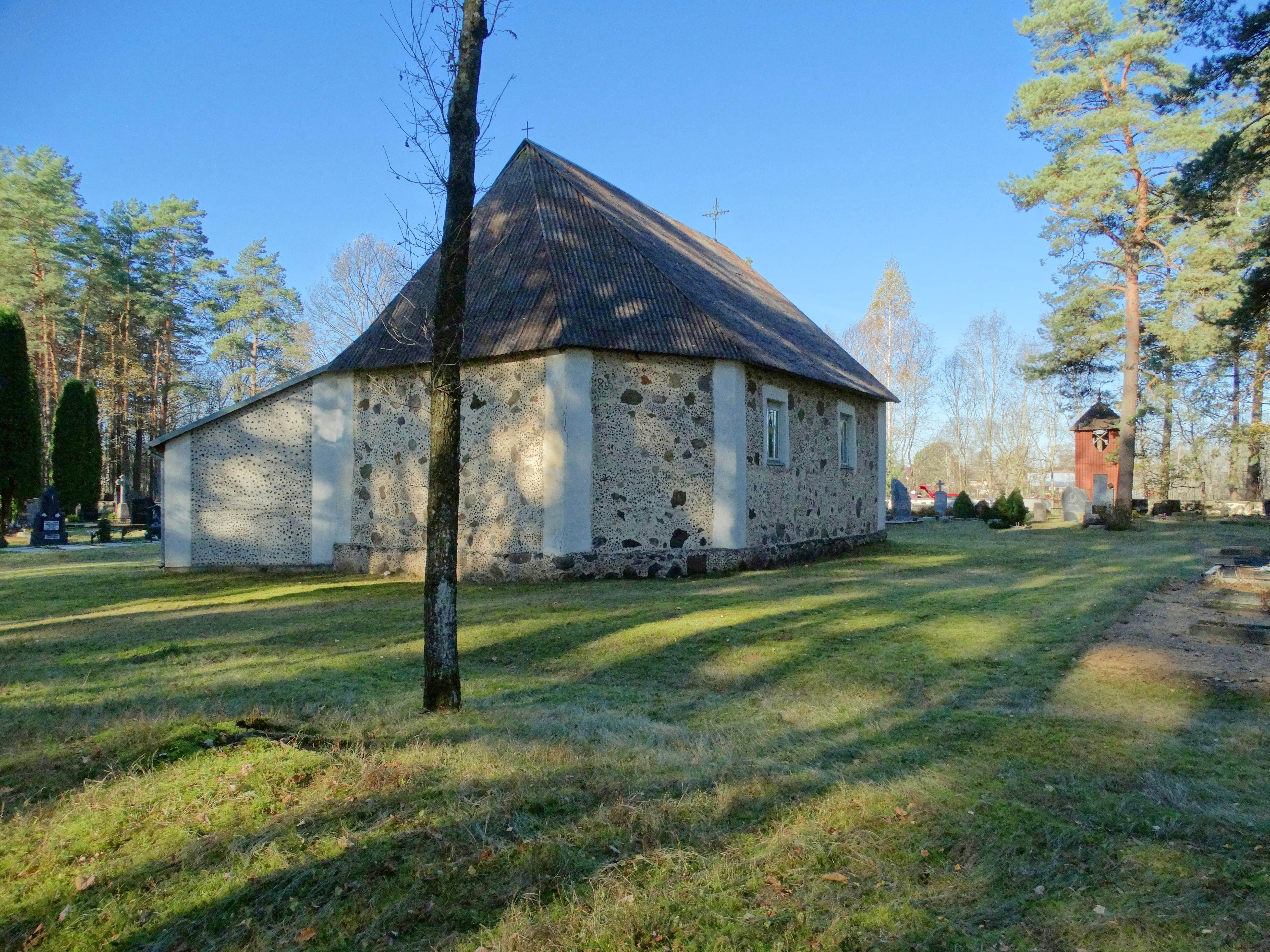 Backside view, chapel in Tiltagaliai, Panevėžys district, Lithuania